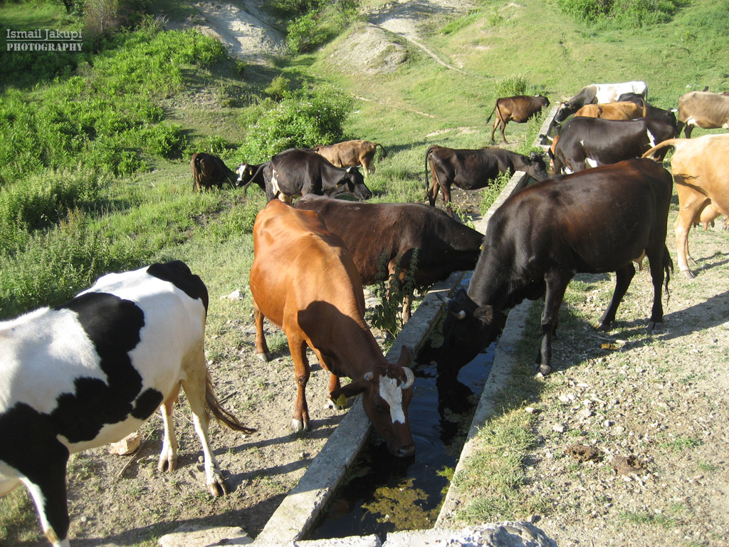 Lopët e Brrutit